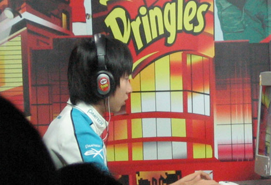 Lee Yoon Yael in the second season of the MSL